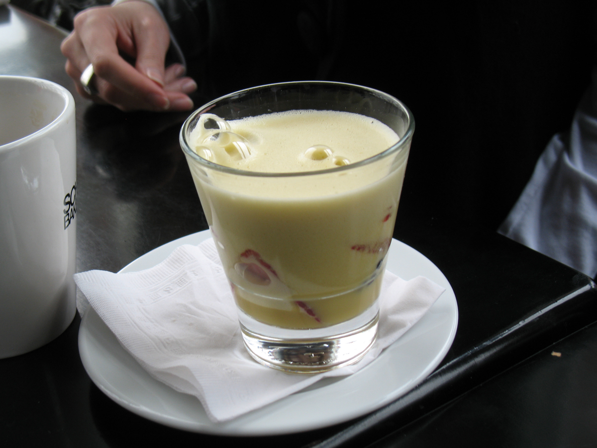 Very Berry Champagne Sabayon